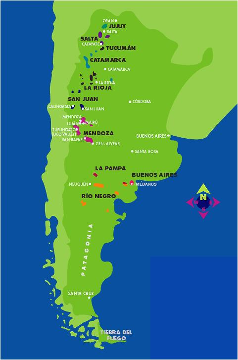 Argentine wine reegions.